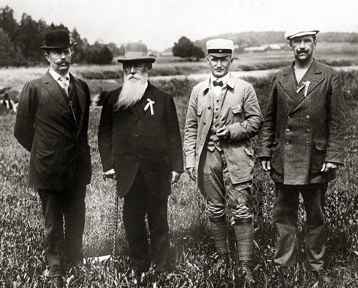 Sport, 1912 Olympic Games, Stockholm, Sweden, Shooting, Team Running Deer Shooting-Single Shot, Sweden, the Gold medal winners, Alfred Swahn, Oscar Swahn, Ake Lundeberg, P,Olof Arvidsson